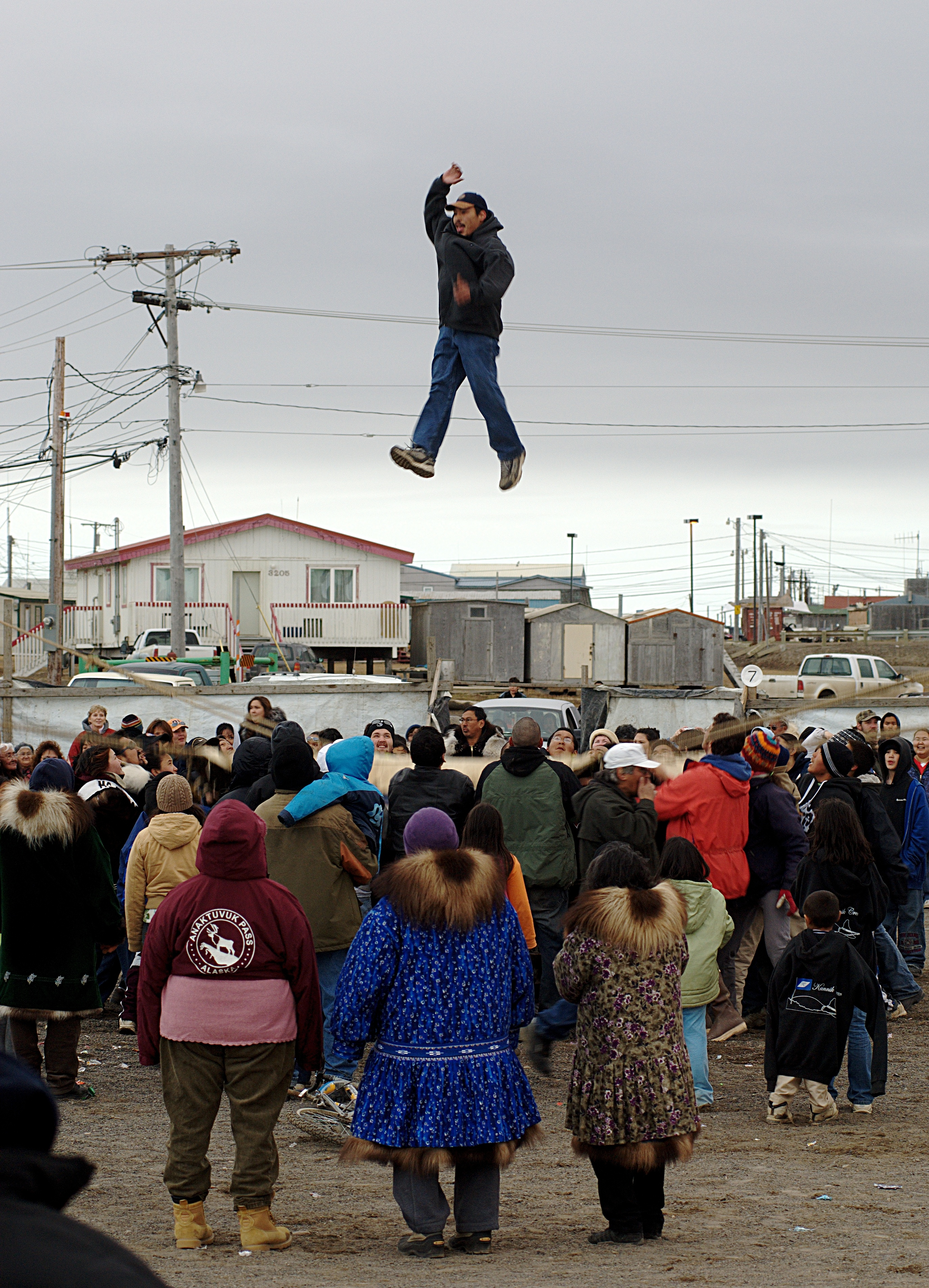 Blanket toss at Nalukataq in Barrow